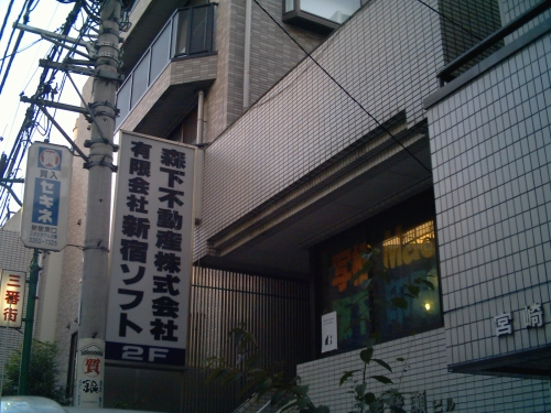 Internet_cafe Shinjukusoft, Office-building,Tokyo japan